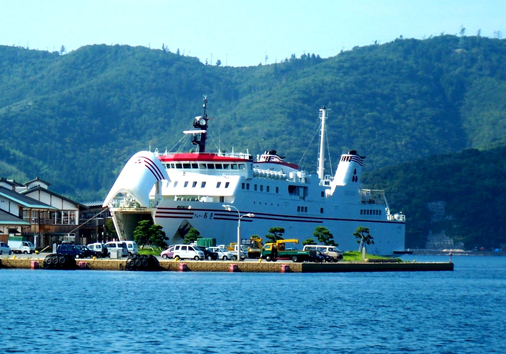 Ferry Oki, Oki Kisen IMO number: 9284178 Callsign : JK5349